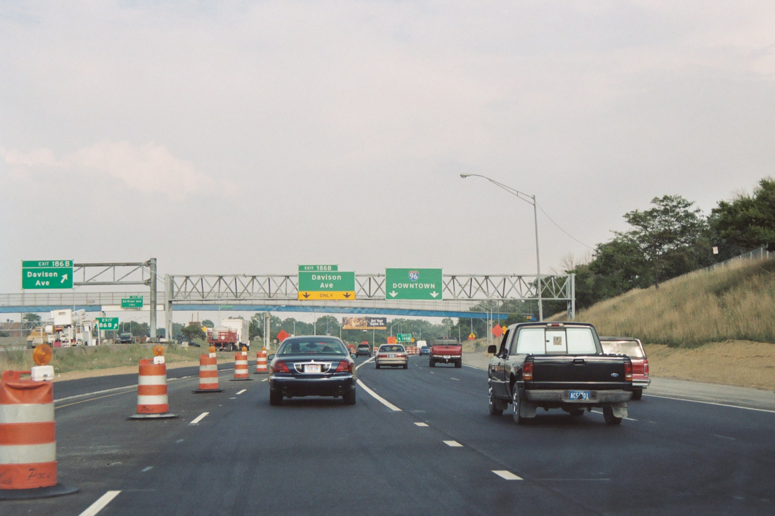 Picture of Davison Ave/E. Jeffries Fwy Interchange (Detroit, Michigan)